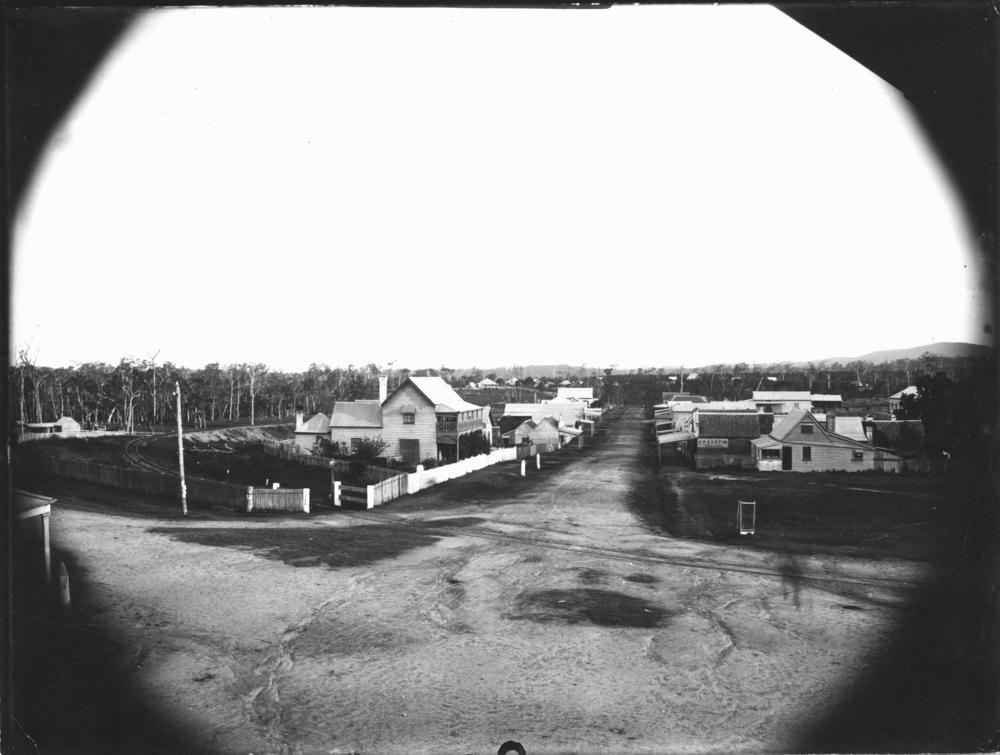 Main Street in Beenleigh, Queensland, ca. 1893. Photograph taken from the veradah of the Beenleigh Hotel, looking across the intersection of the James Street, Main Street and City Road, southwards along Main Street. The building at left was the Queensland National Bank. This building was originally (1870) the Planter's Rest Hotel. (Description supplied with photograph.).